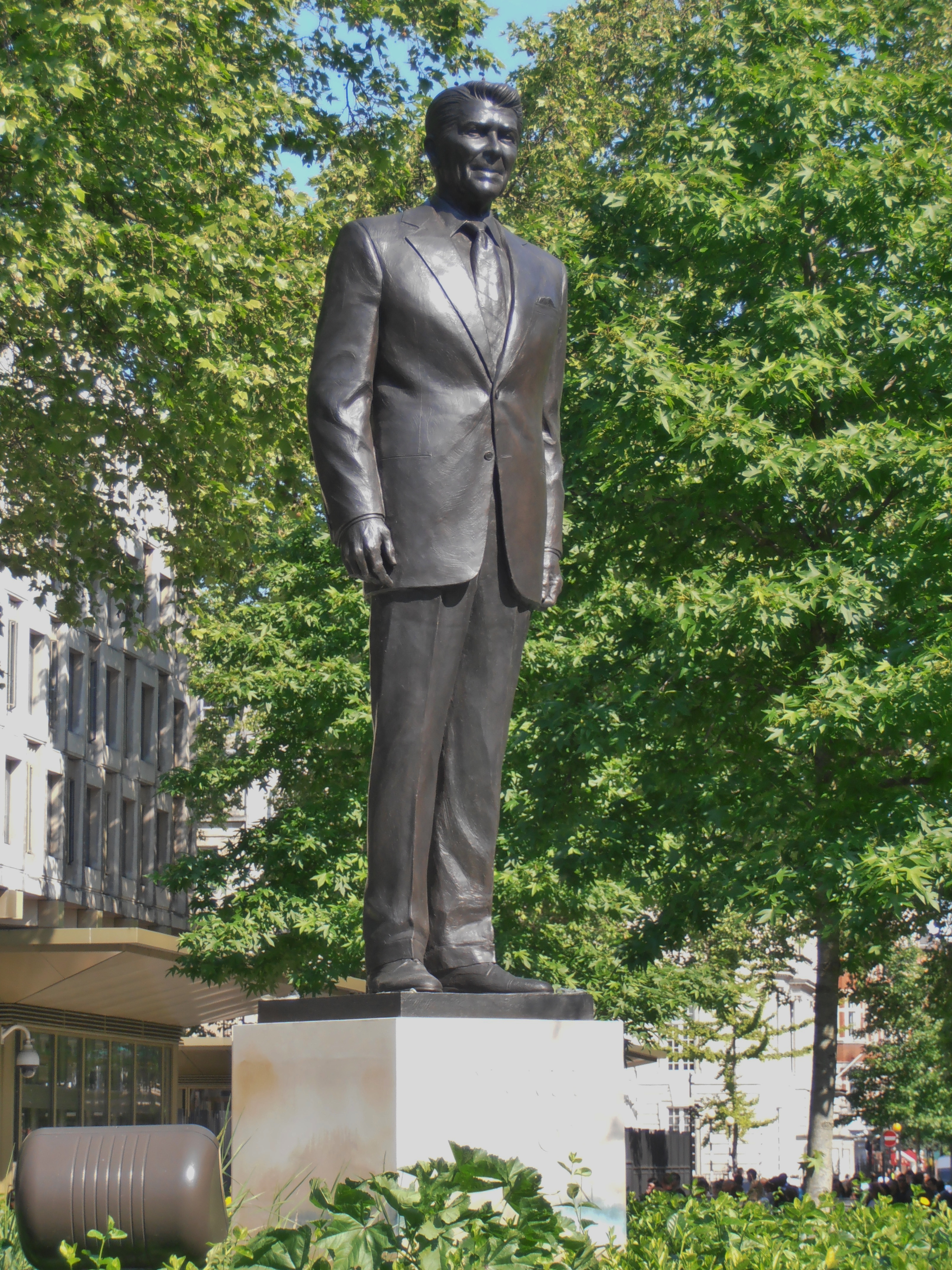 Statue of Ronald Wilson Reagan (2011) by Chas Fagan. Grosvenor Square, Mayfair, London W1. The making of this file was supported by Wikimedia UK.